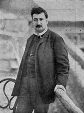 Portrait